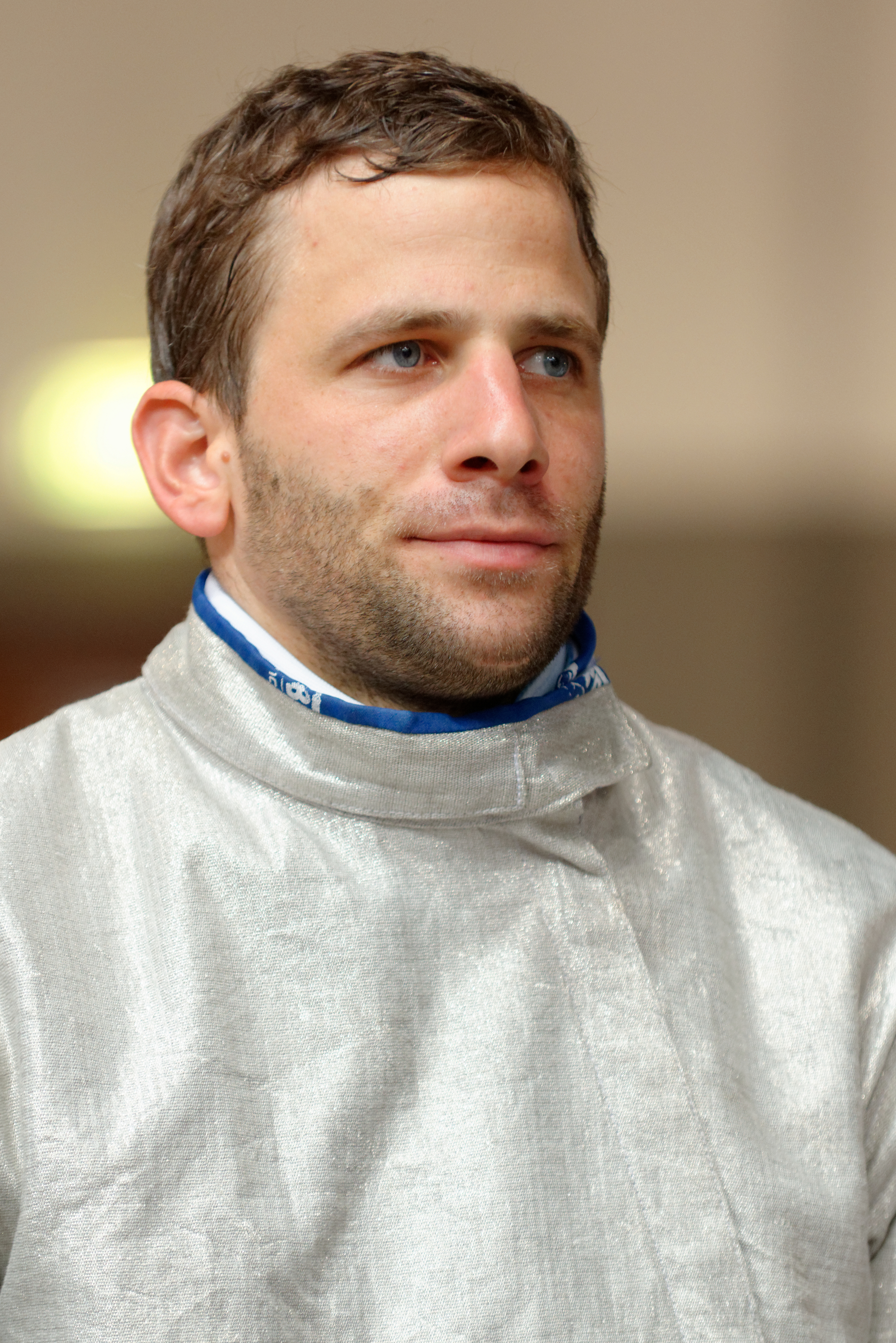 Csanád Gémesi of Hungary before the men's sabre round of 32 in the 2013 World Fencing Championships 2013 at Syma Hall in Budapest, 7 August 2013.